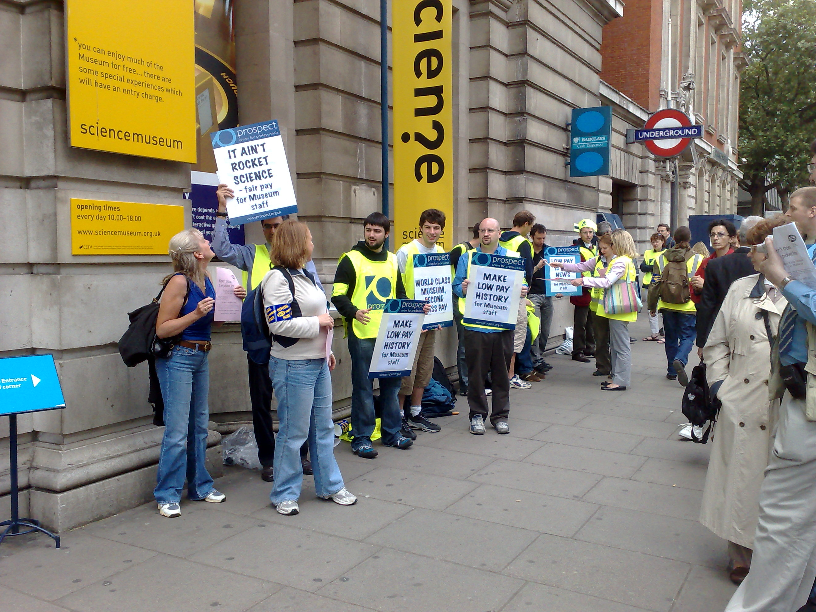 On the picket line